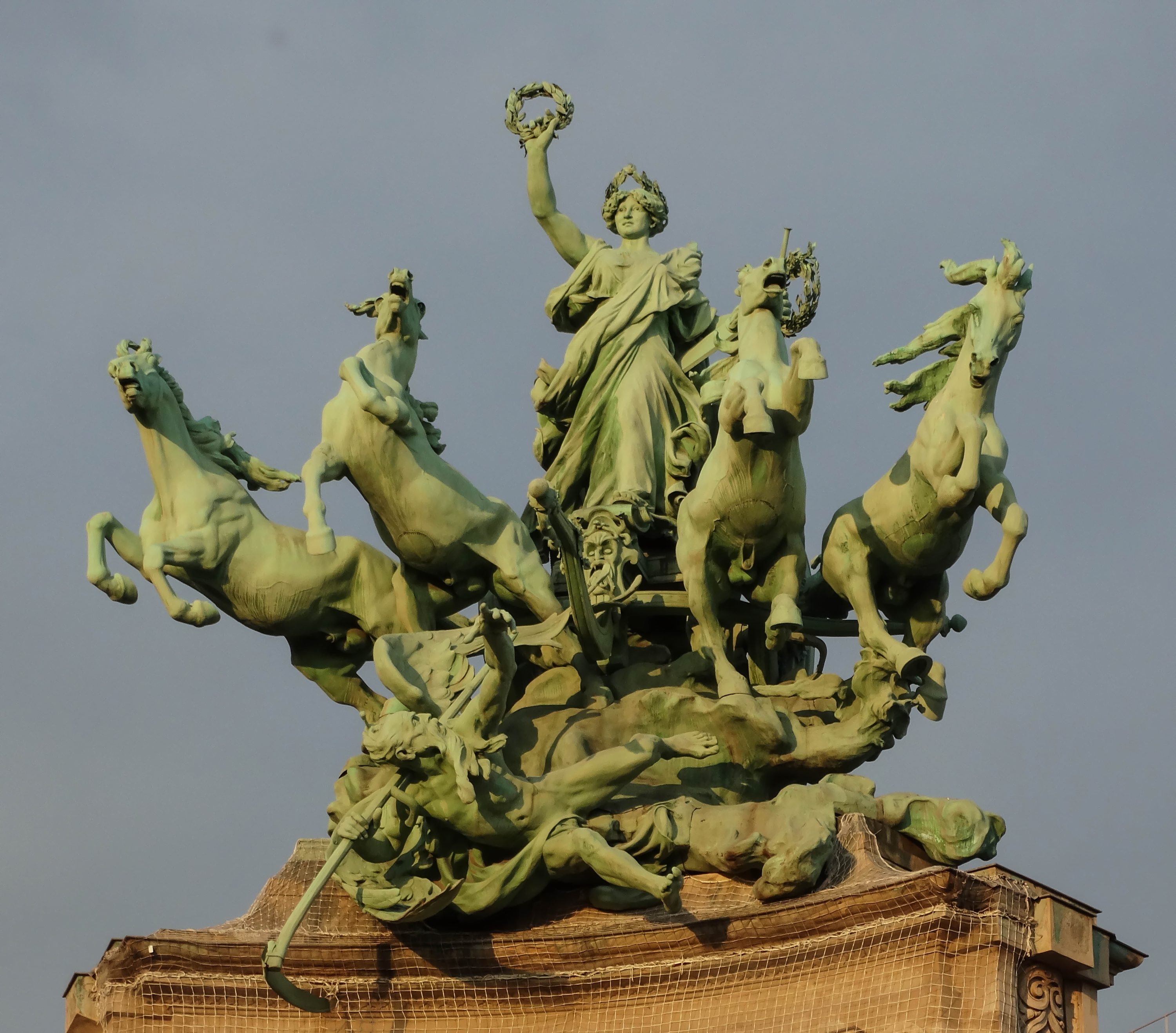 Named Immortality Outstripping Time this statue sits on a corner of the Grand Palais in Paris, created by Georges Recipon.